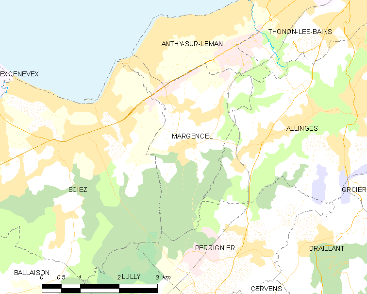 Map of French municipality Margencel